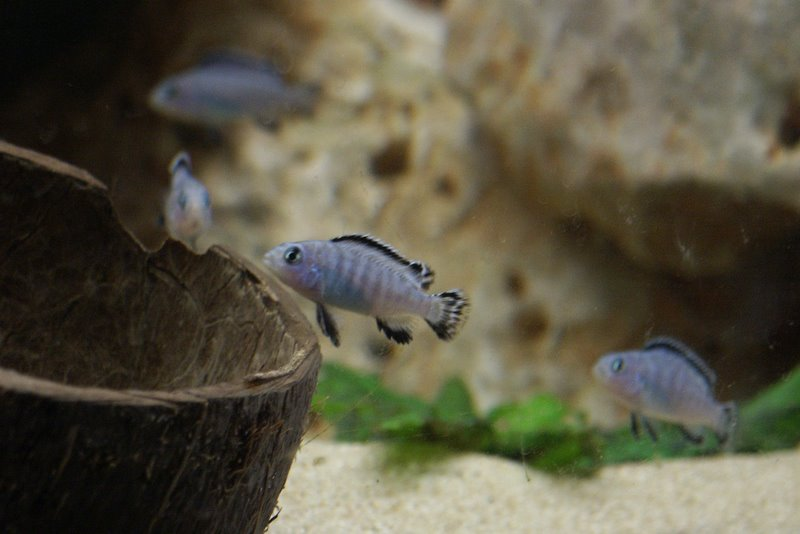 Childreen of Pseudotropheus Socolofi from Lake Malawi